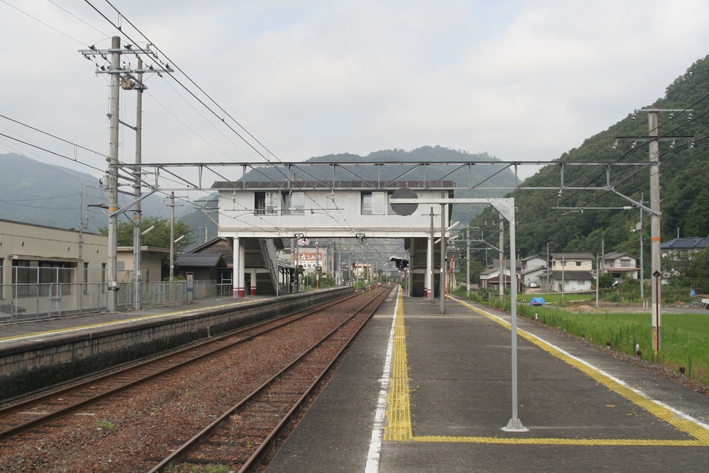 撮影地、撮影場所…伯備線 美袋駅の構内 撮影年月日…2007年8月1日Minagi Station platform area in Okayama Prefecture, Japan.